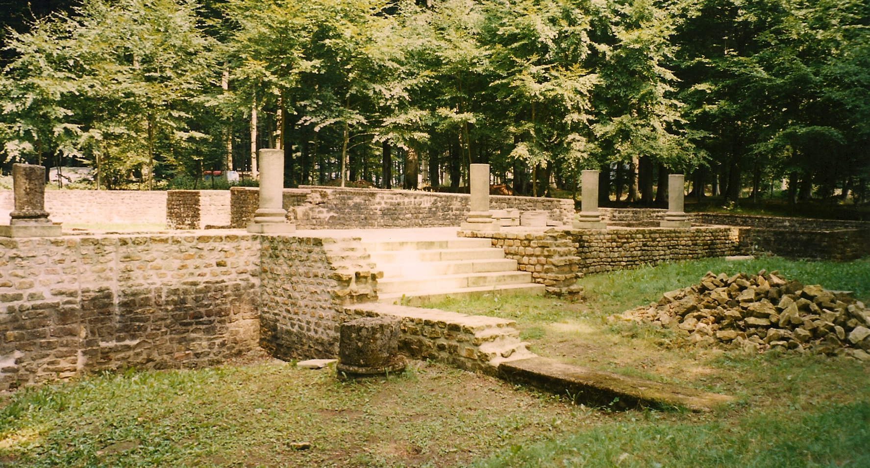 The better looking of the two reconstructed buildings at Goeblange-Miecher.